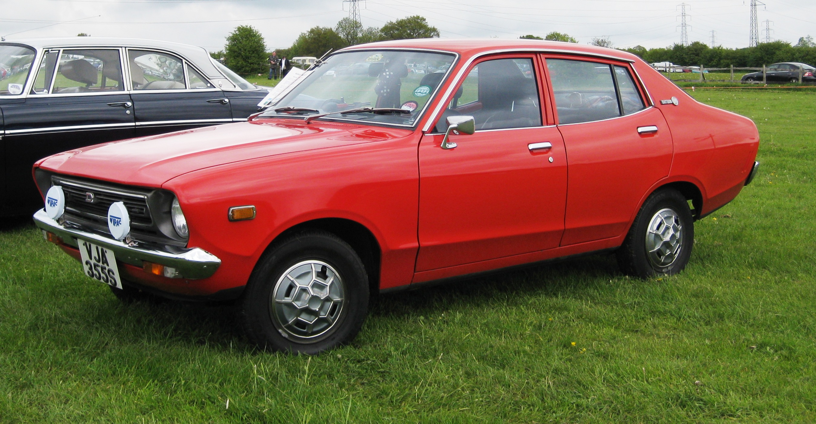 Datsun Sunny at Battlesbridge Classic car Show